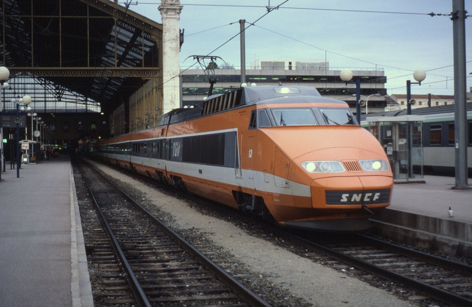 Sud-Est TGV set no.12 is seen at Marseille St Charles on 7 April 1987.